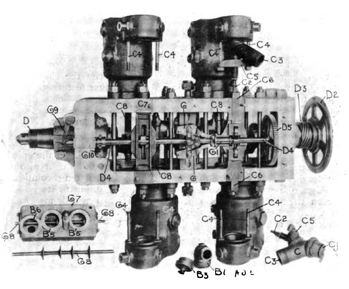 Wilson-Pilcher flat four engine viewed from beneathe with the lower crankcase cover removed.